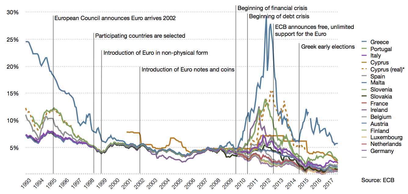 Long-term interest rate statistics for all Eurozone countries. (percentages per annum; period averages; secondary market yields of government bonds with maturities of close to ten years)